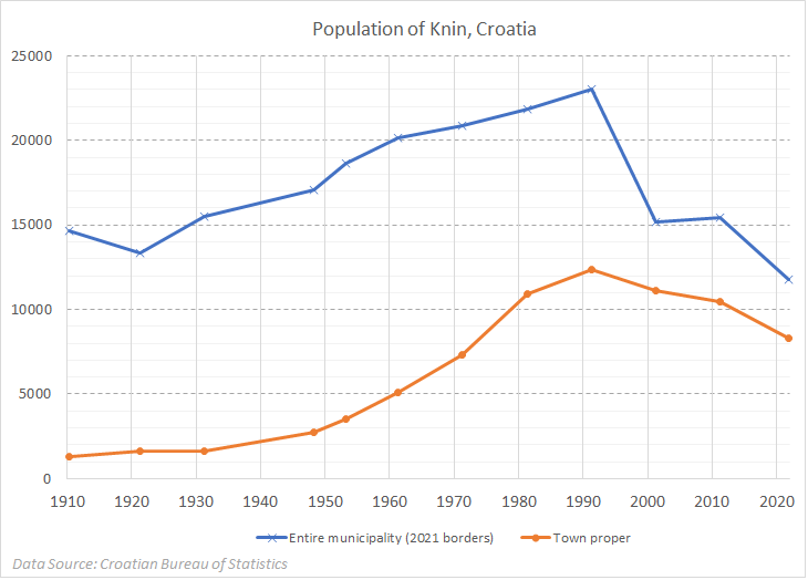 Population diagram for town and municipality of Knin, Croatia 1857-2018